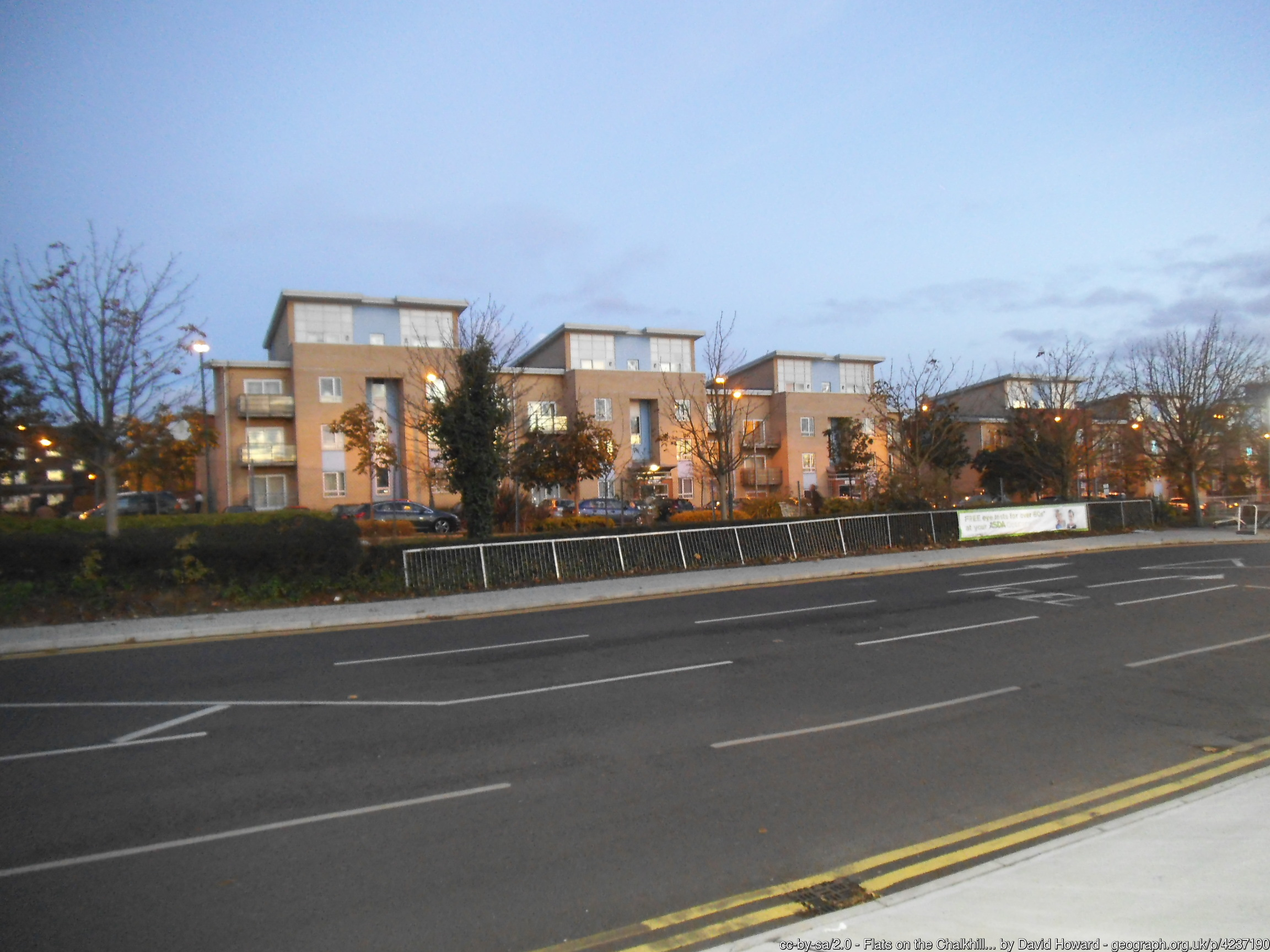 Wellspring Crescent, Chalkhill Estate, Wembley Park, Wembley HA9